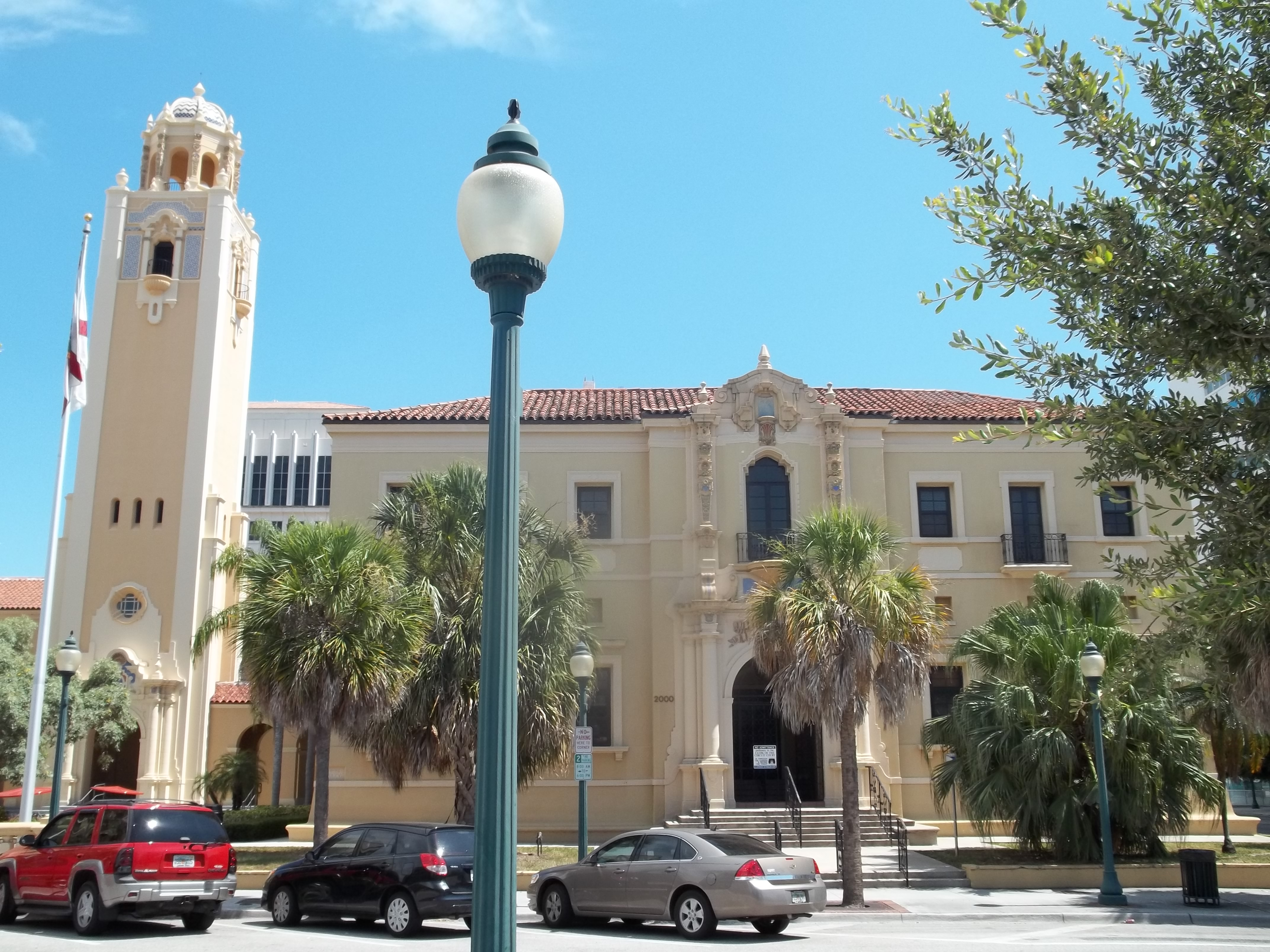 Sarasota, Florida: Sarasota County Courthouse